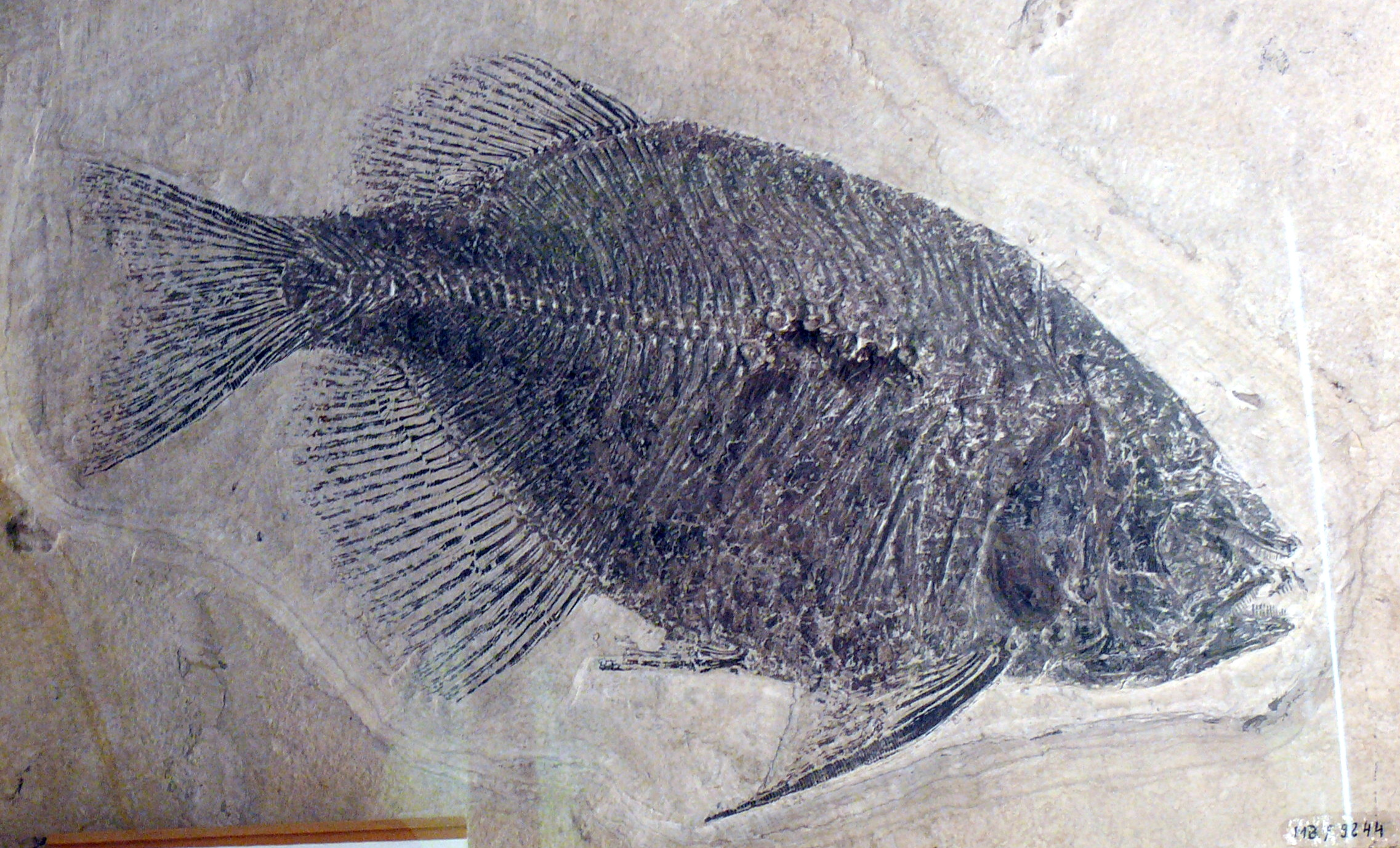 Phareodus testis (Syn: Dapedoglossus testis) from the Eocene, Green River Formation, Wyoming